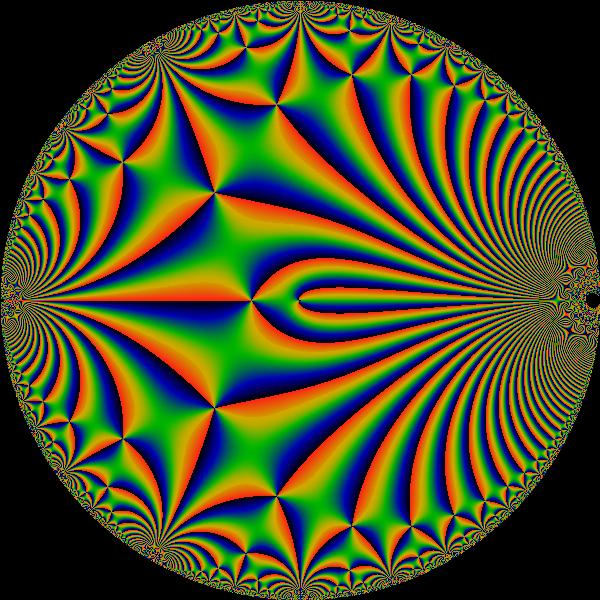 Klein's J-invariant, phase portrait (600x600 pixels) Detailed description This image shows the phase of the J-invariant as a function of the square of the nome on the unit disk . That is, runs from 0 to along the edge of the disk. Black indicates regions where the phase is , green where the phase is zero, and red where the phase is . Zeros occur at the points where the colors wrap all the way around a point. Here, the tri-corner intersections show that the phase wraps around three times, for a total of , indicating that the zeros are of the third power: . The diamond-shaped patterns at the right side of the image are Moiré patterns, and are an artifact of the pixelization of the image (the strips are smaller than the size of a pixel; the color of the pixel is assigned according to the value of the function at the center of the pixel, rather than the average of values over the pixel). The fractal self-similarity of this function is that of the modular group; note that this function is a modular form. Every modular function will have this general kind of self-similarity. In this sense, this particular image clearly illustrates the tesselation of the Poincare disk by the modular group. Each quadrilateral visible in the image consists of a pair of hyperbolic triangles; each triangle is a fundamental domain of the modular group. Note in particular that one corner of each triangle lies on the edge of the disk, with exactly one exception: there is one exceptional very tiny triangle (about two pixels in size), taking the shape of an oval, that lies surrounding the center of the disk. One corner of that triangle is exactly at the center . See the image of the real part for a description of this exceptional triangle, as well as the funny exceptional tongue that goes with it. See also Image:J-inv-real.jpeg for the real part. It, and other related images, can be seen at Relevant Links Weierstrass elliptic functions Eisenstein series Q-series